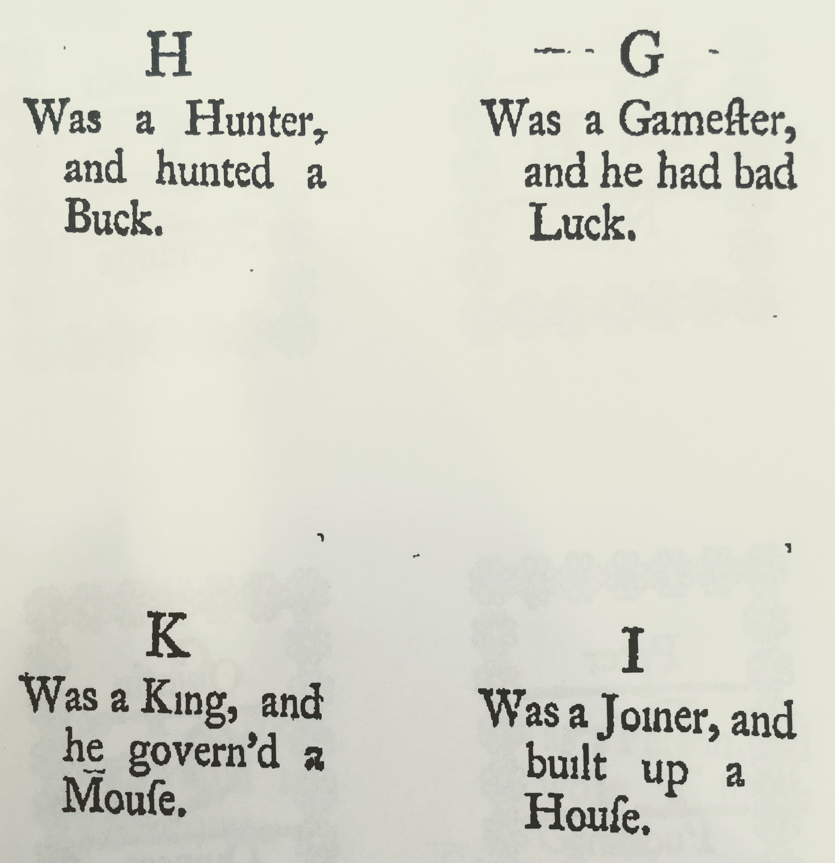 Page from "The Child's New Play-Thing" (second ed. 1743), illustrating I and J considered as the same letter.